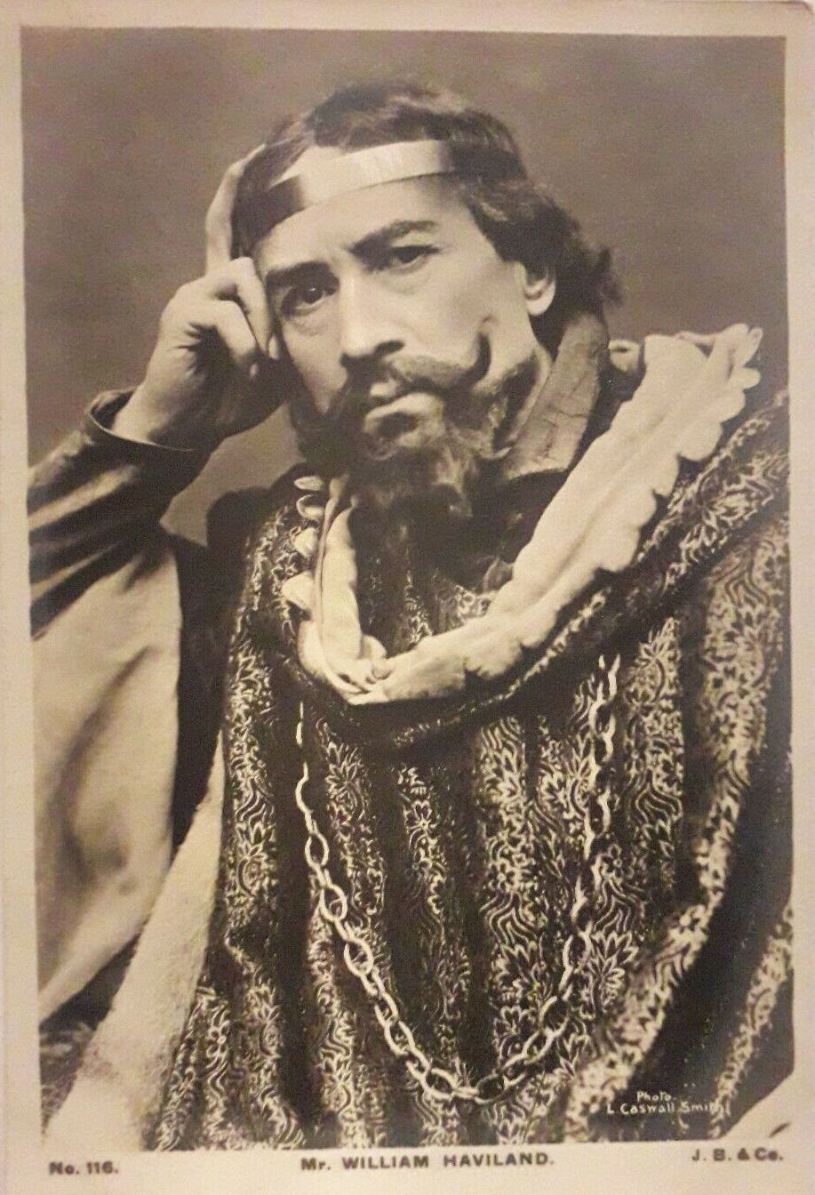 The actor-manager William Haviland (1856-1917)